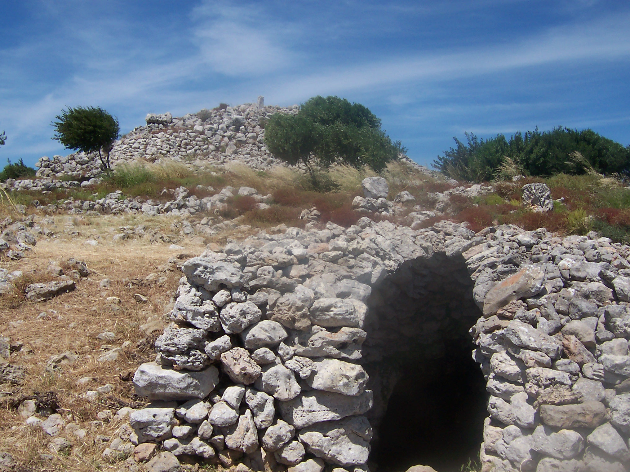 Torre d'en Galmés, Minorca